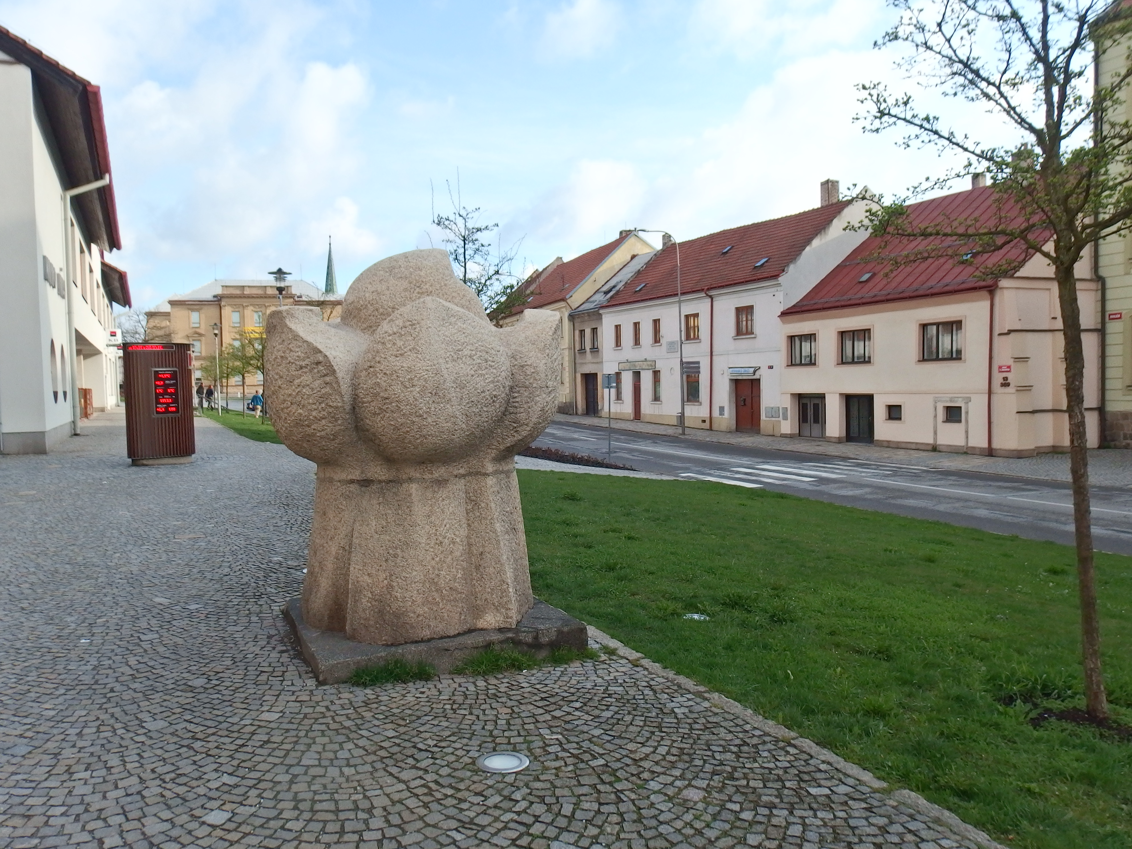 Třešť, Jihlava District, Czech Republic.